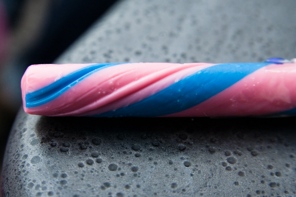 Cotton Candy Flavored Candy Stick